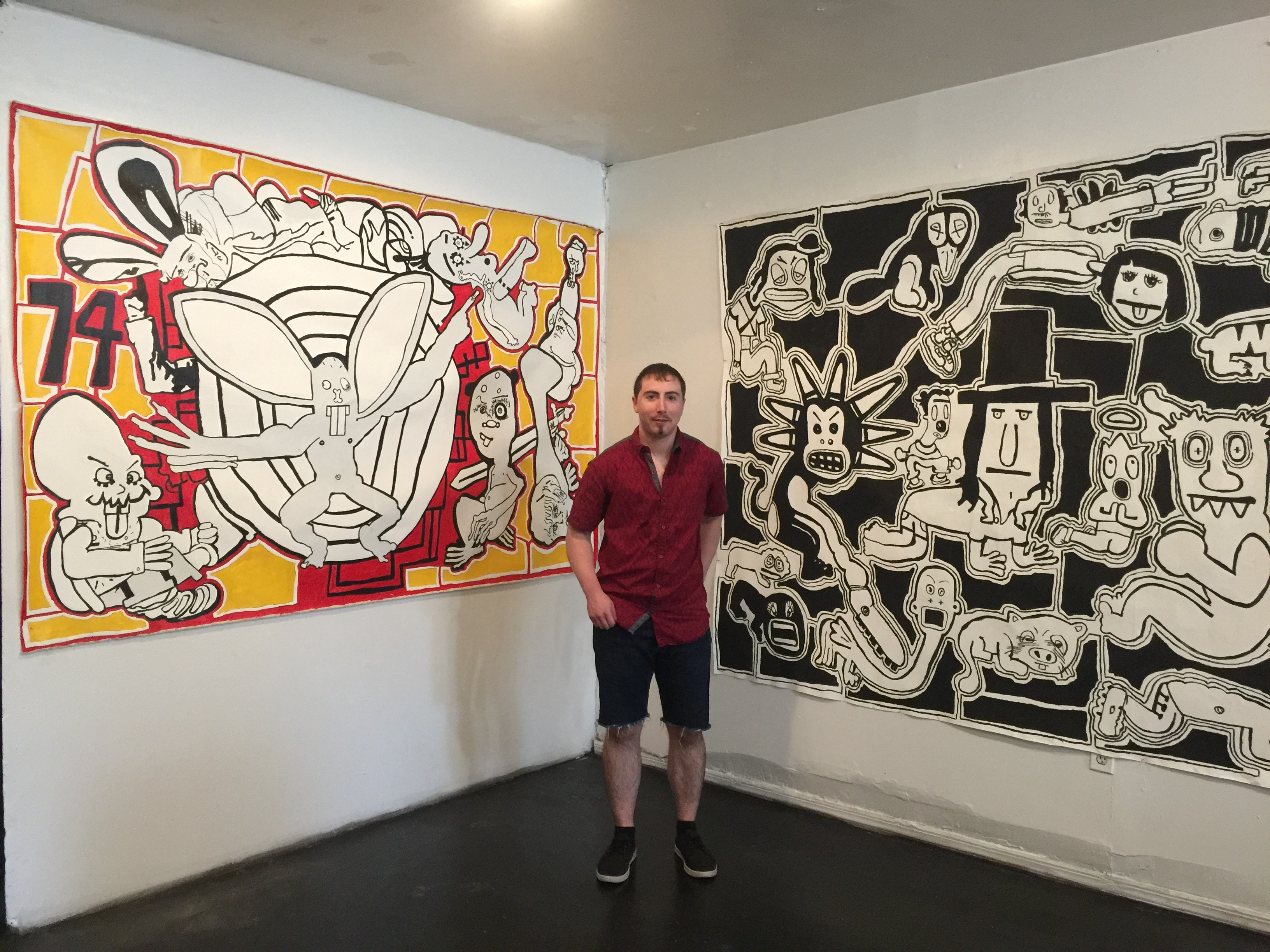 Quinn Marston is a Manhattan-based visual artist and musician. In this photo Marston is between two of his creations. 6 of 6